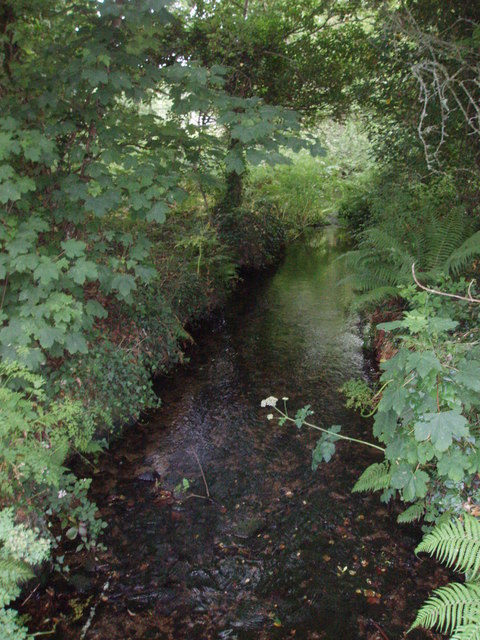 Stream near Clowance wood. The weak bridge crosses this stream. This stream feeds into the Hayle river.